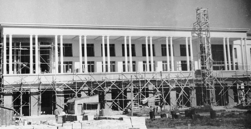 Construction of Argentina pavilion in the middle 20th centruy. National University of Cordoba. Cordoba, Argentina.